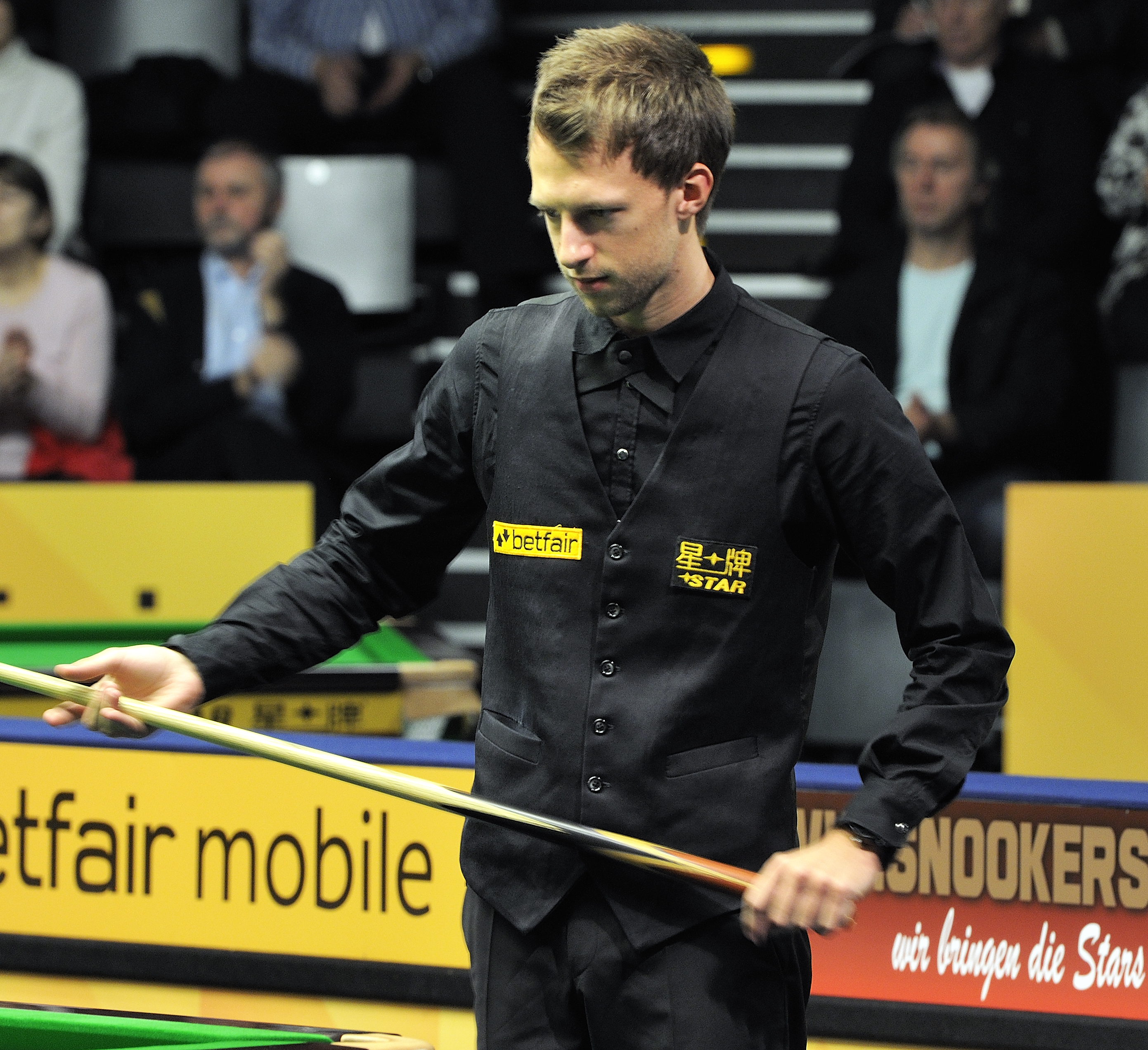 Picture taken in Berlin during the Snooker German Masters in 2013. Judd Trump.